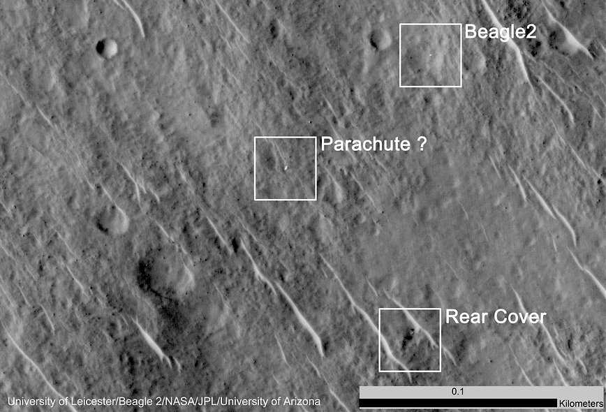 Components of Beagle 2 Flight System on Mars This annotated image shows where features seen in a 2014 observation by NASA's Mars Reconnaissance Orbiter have been interpreted as hardware from the Dec. 25, 2003, arrival at Mars of the United Kingdom's Beagle 2 Lander. Beagle 2 was released by the European Space Agency's Mars Express orbiter but never heard from after its expected landing. Images from the High Resolution Imaging Science Experiment (HiRISE) camera on Mars Reconnaissance Orbiter have been interpreted as showing the Beagle 2 did make a soft landing and at least partially deployed its solar panels. The 0.1-kilometer scale bar indicates a dimension of 328 feet. The location is approximately 11.5 degrees north latitude, 90.4 degrees east latitude. The image is an excerpt from HiRISE observation ESP_037145_1915, taken June 29, 2014. Other image products from this observation are available at . The University of Arizona, Tucson, operates HiRISE, which was built by Ball Aerospace & Technologies Corp., Boulder, Colo. NASA's Jet Propulsion Laboratory, a division of the California Institute of Technology in Pasadena, manages the Mars Reconnaissance Orbiter Project for NASA's Science Mission Directorate, Washington.